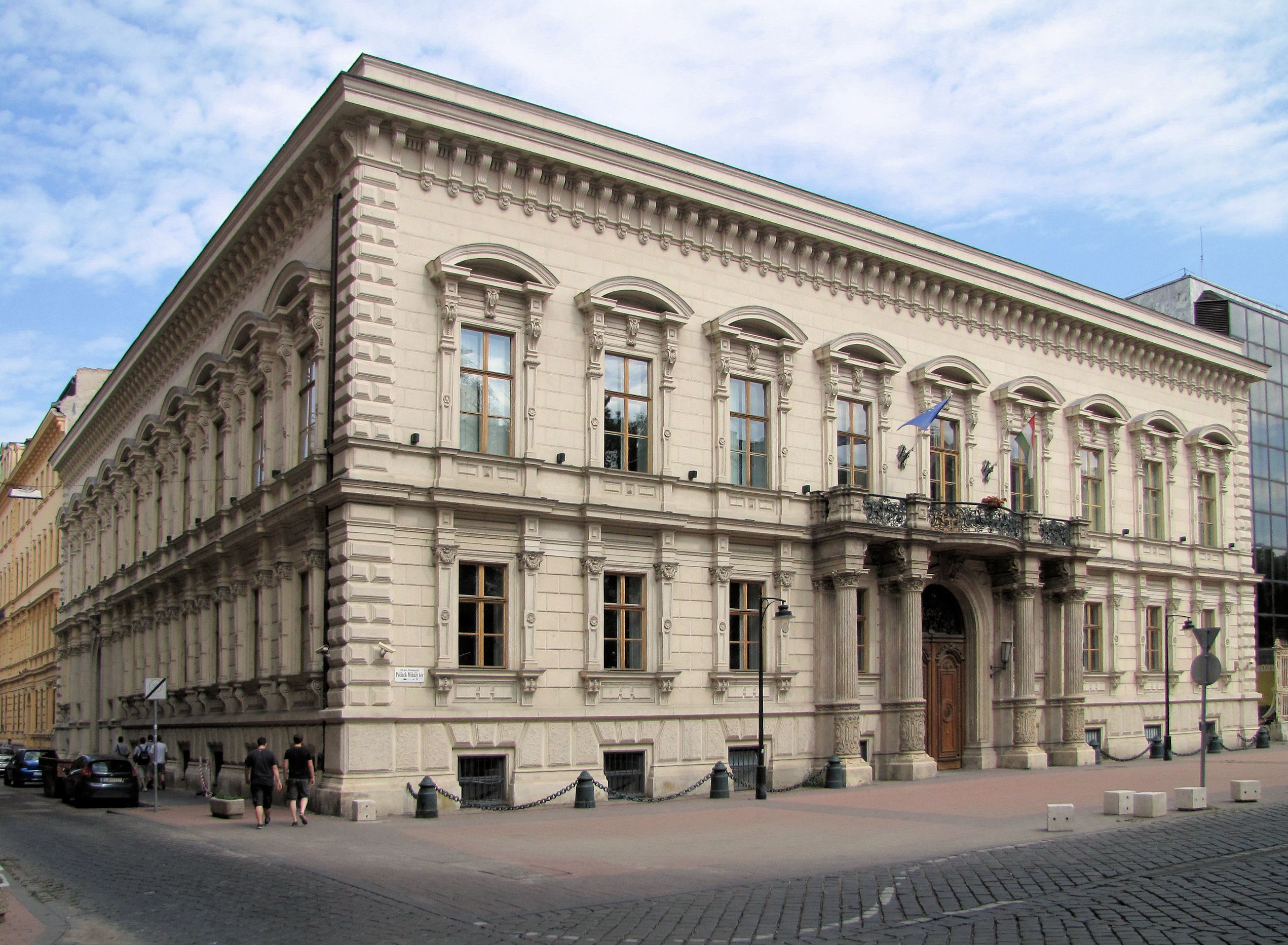 Former Festetics Palace, Pollack Mihály Square, Budapest. Today it houses the Andrássy University.